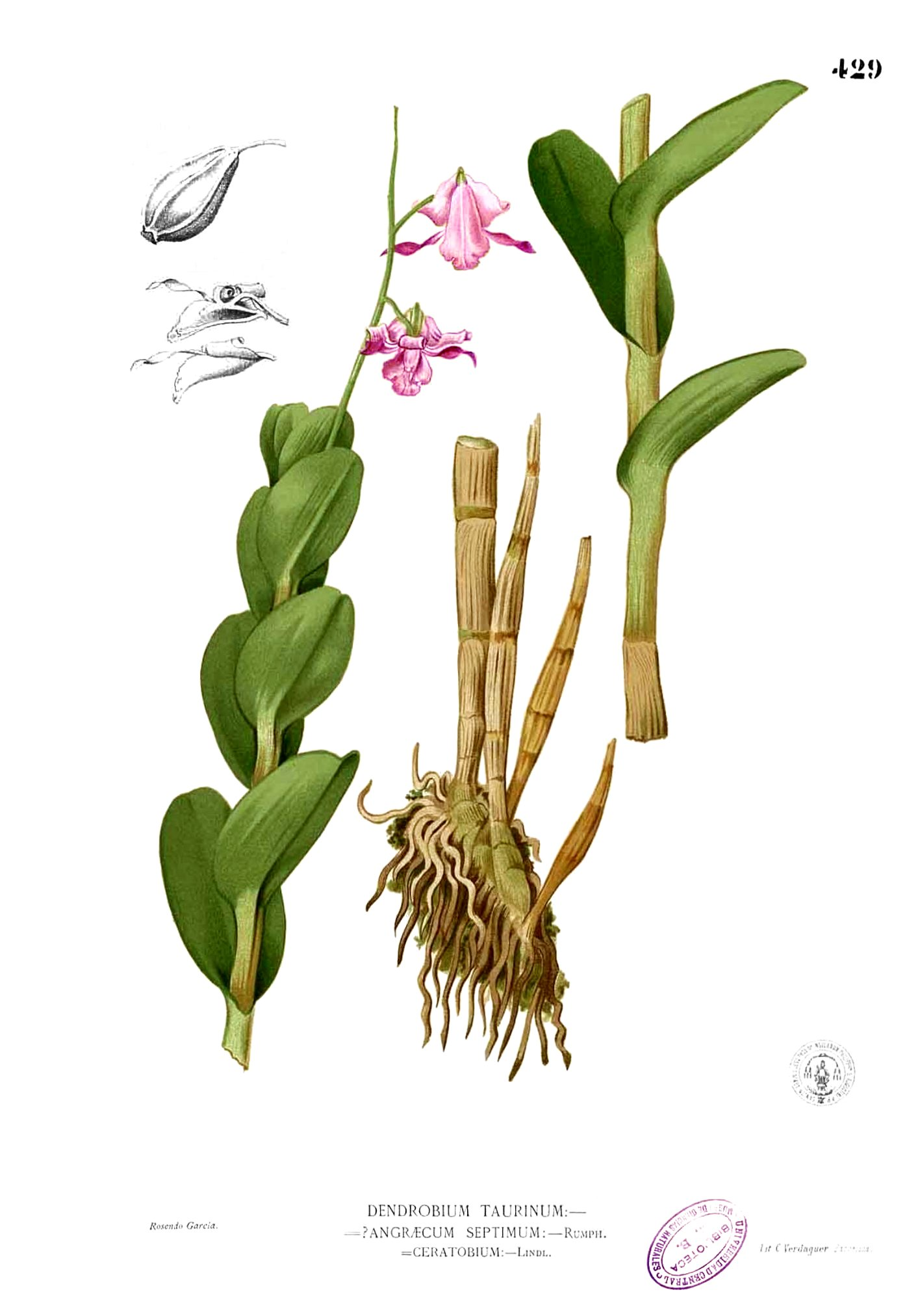 Dendrobium taurinum - Plate from book